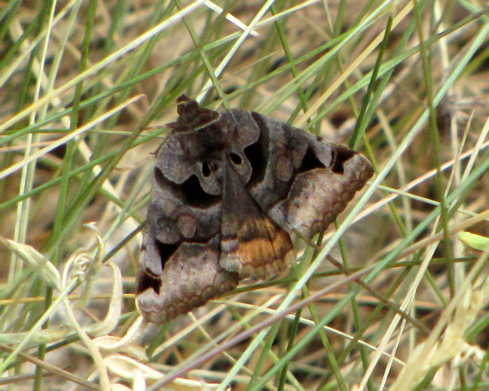 Toothed Somberwing (Euclidia cuspidea) moth, Mer Bleue Conservation Area, Ottawa, Ontario, Canada